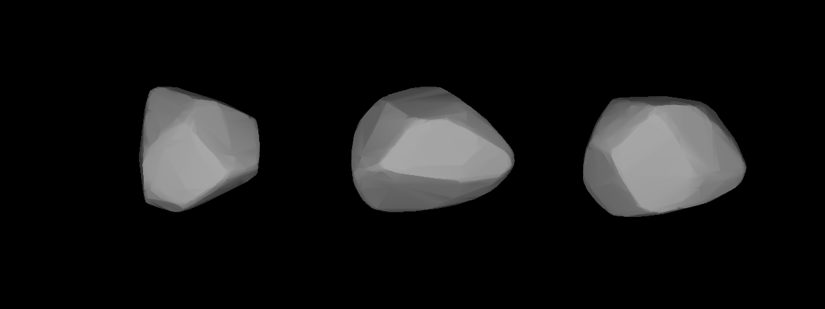 A three-dimensional model of 222 Lucia that was computed using light curve inversion techniques.